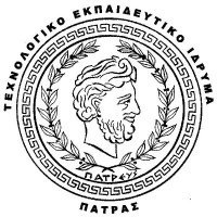 Emblem of Technological Educational Institute of Patras, Greece.